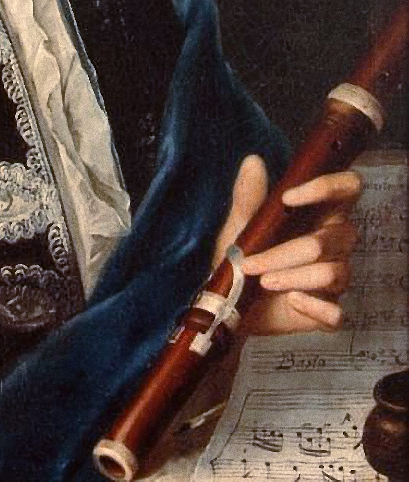 Detail of a Portrait of Johann Joachim Quantz